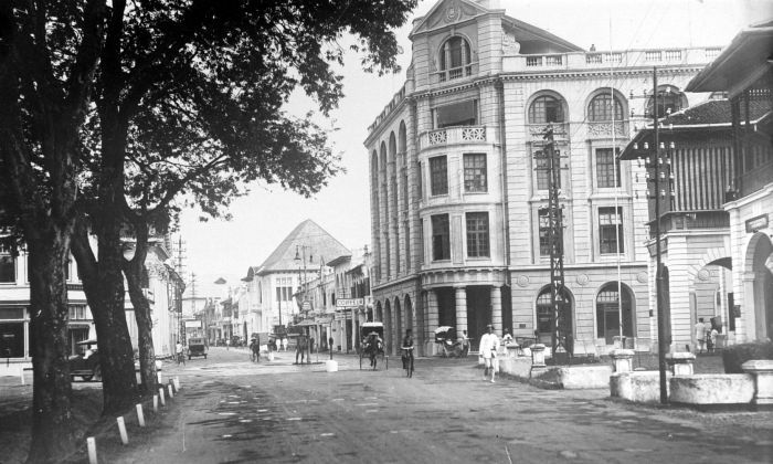 The Harrison & Crossfield office at the Kesawan